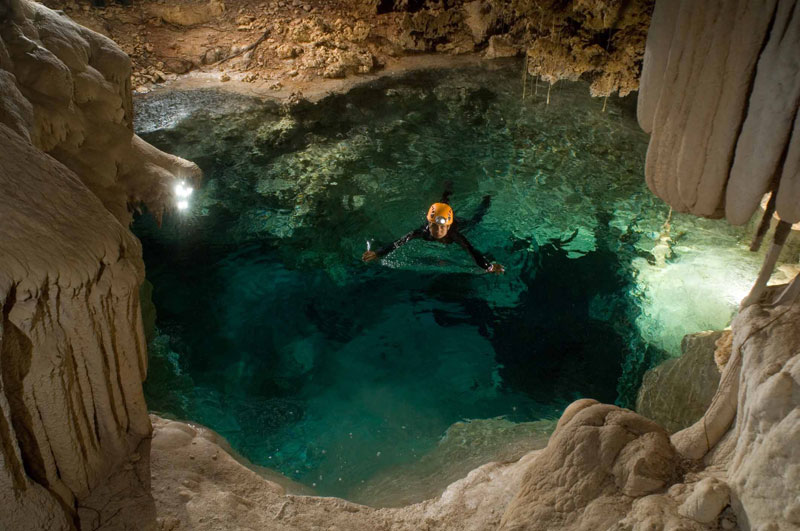 Rio Secreto, es un reserva natural en Mexico, a solo unos minutos de Playa del Carmen.